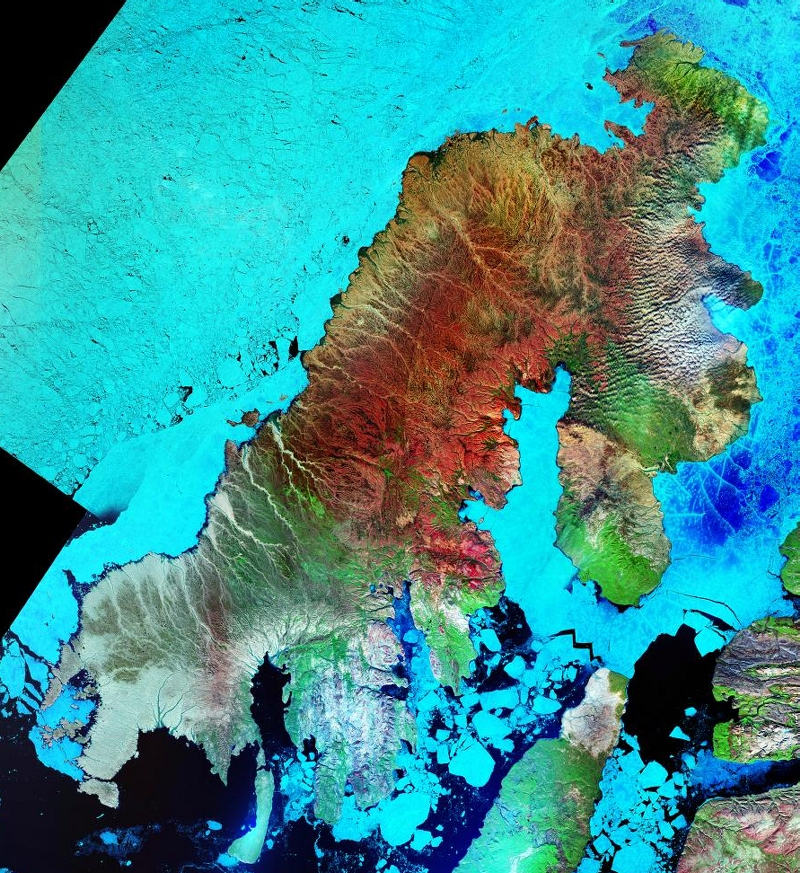 Satellite image of Prince Patrick Island